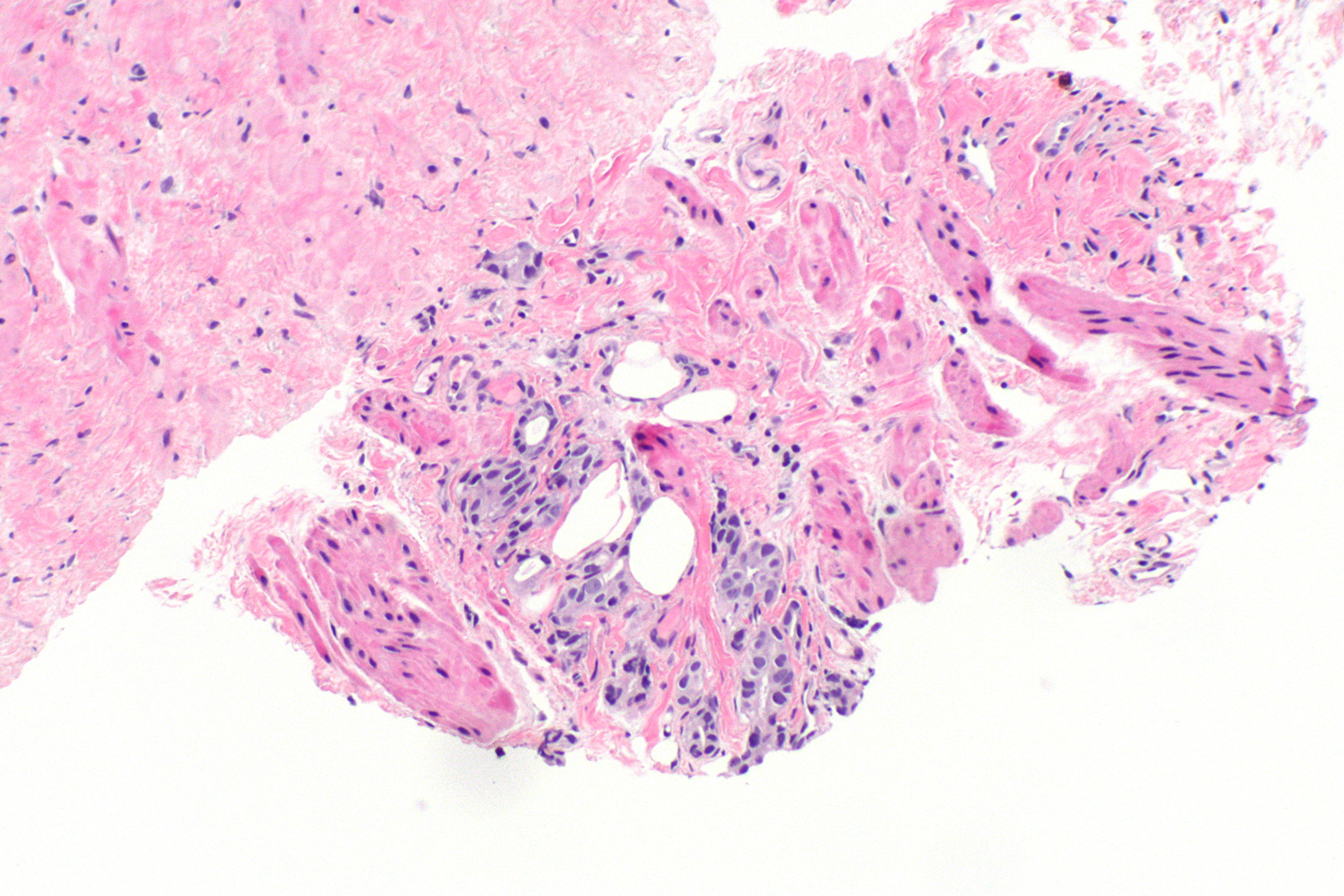 Micrograph showing prostate carcinoma with extraprostatic extension (EPE). Core biopsy. H&E stain. In the context of a biopsy, EPE is defined as tumour adjacent to fat. The tumour seen is Gleason pattern 4. Related images EPE - intermed. mag. EPE - high mag.